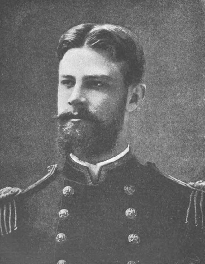 Richmond Pearson Hobson (August 17, 1870 – March 16, 1937)